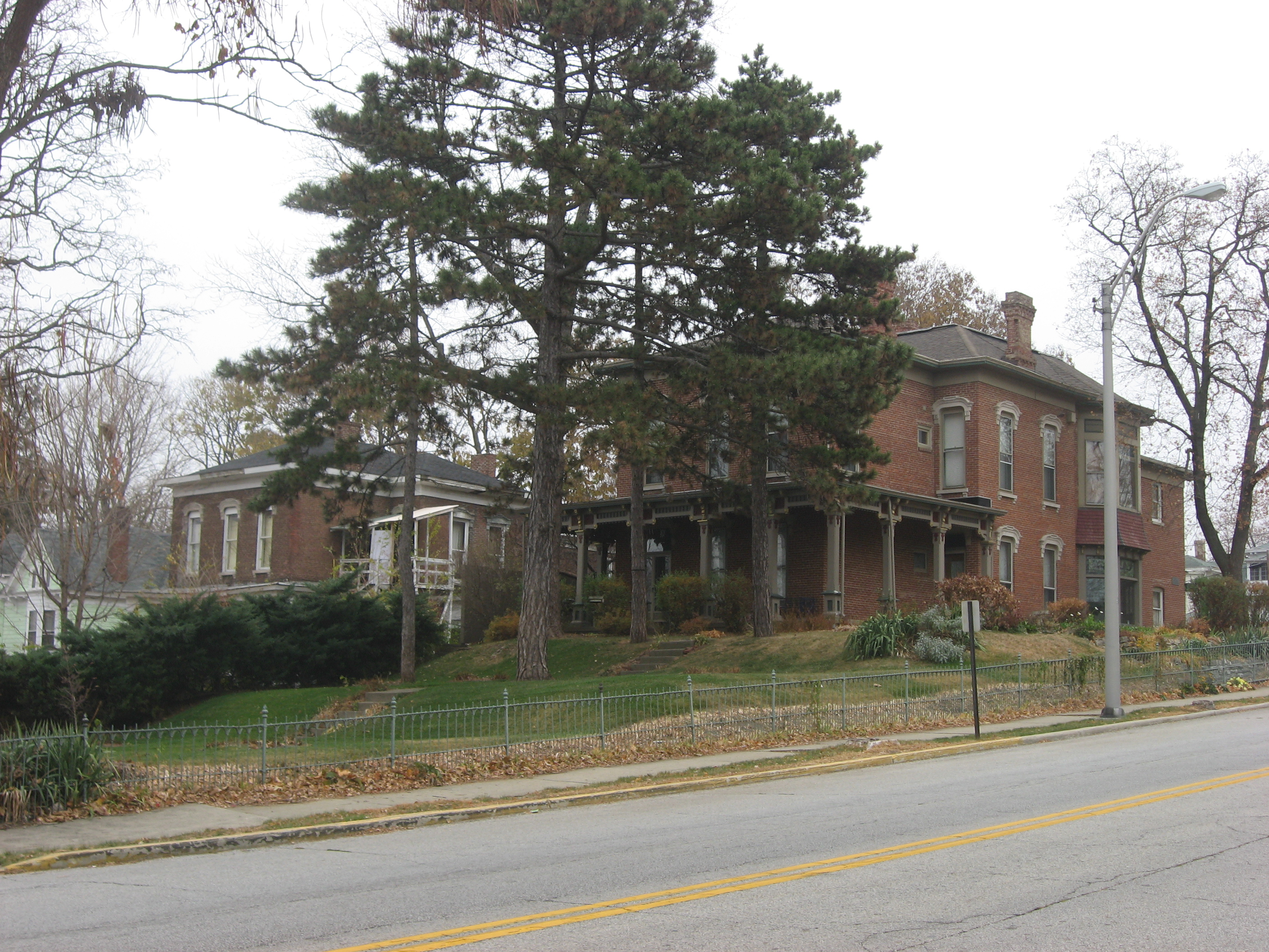 Houses on the eastern side of the 200 block of Perrin Avenue on the east side of Lafayette, Indiana, United States. This area is part of the Perrin Historic District, a historic district that is listed on the National Register of Historic Places.